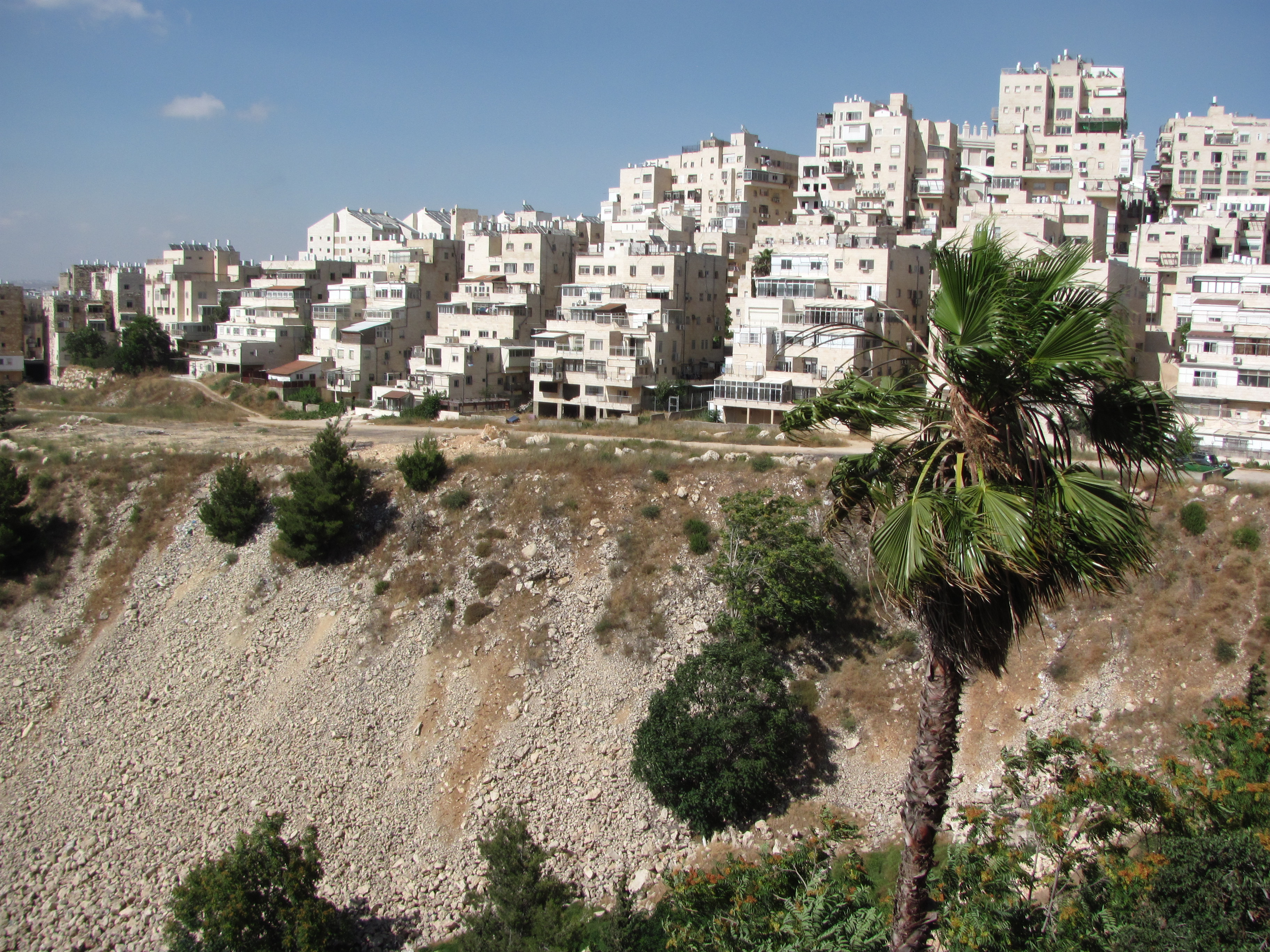 Rear view of the Unsdorf neighborhood of Jerusalem, Israel, with wadi below.